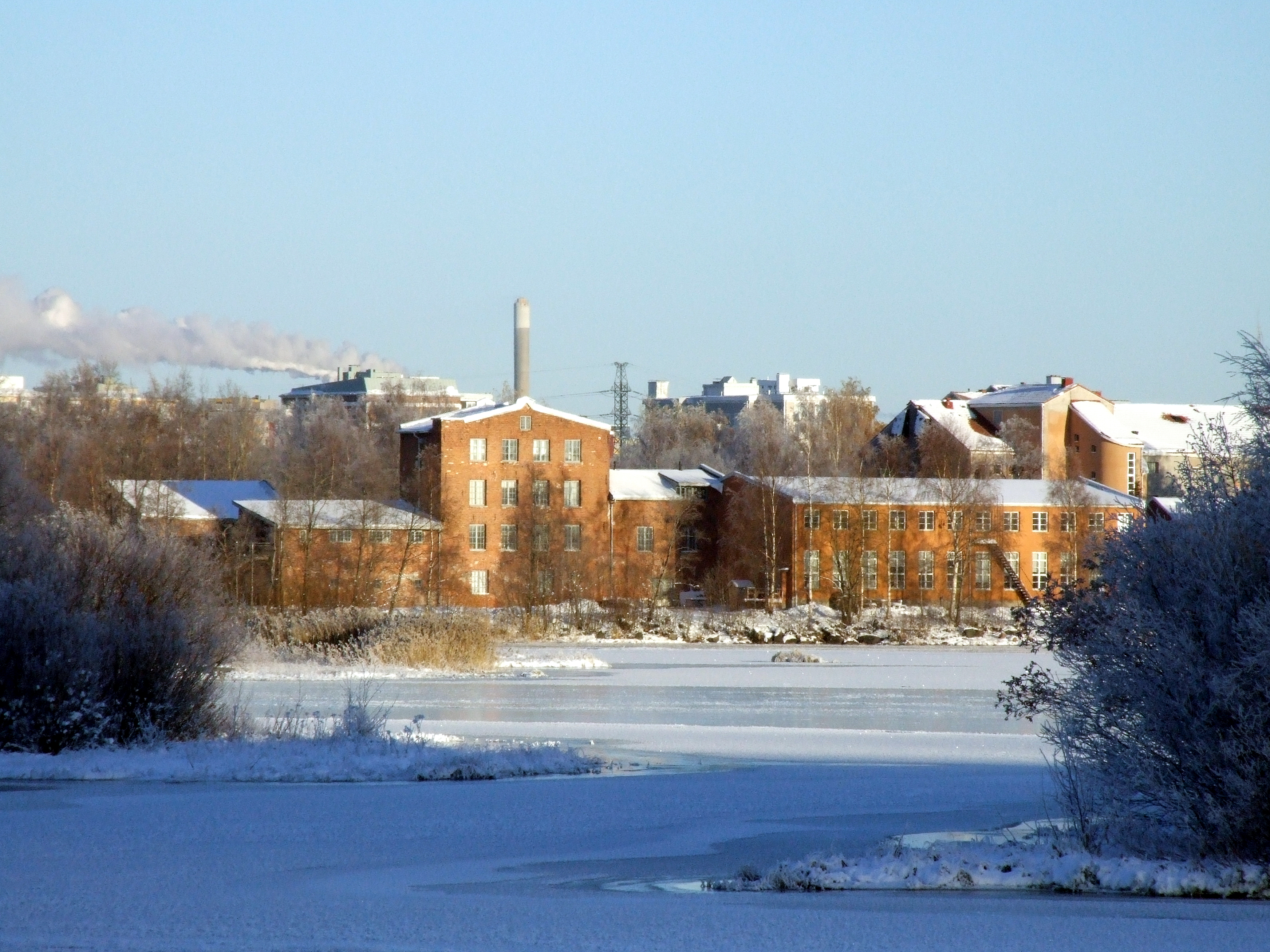 Former woolen mill buildings in Pikisaari island in Oulu, Finland.